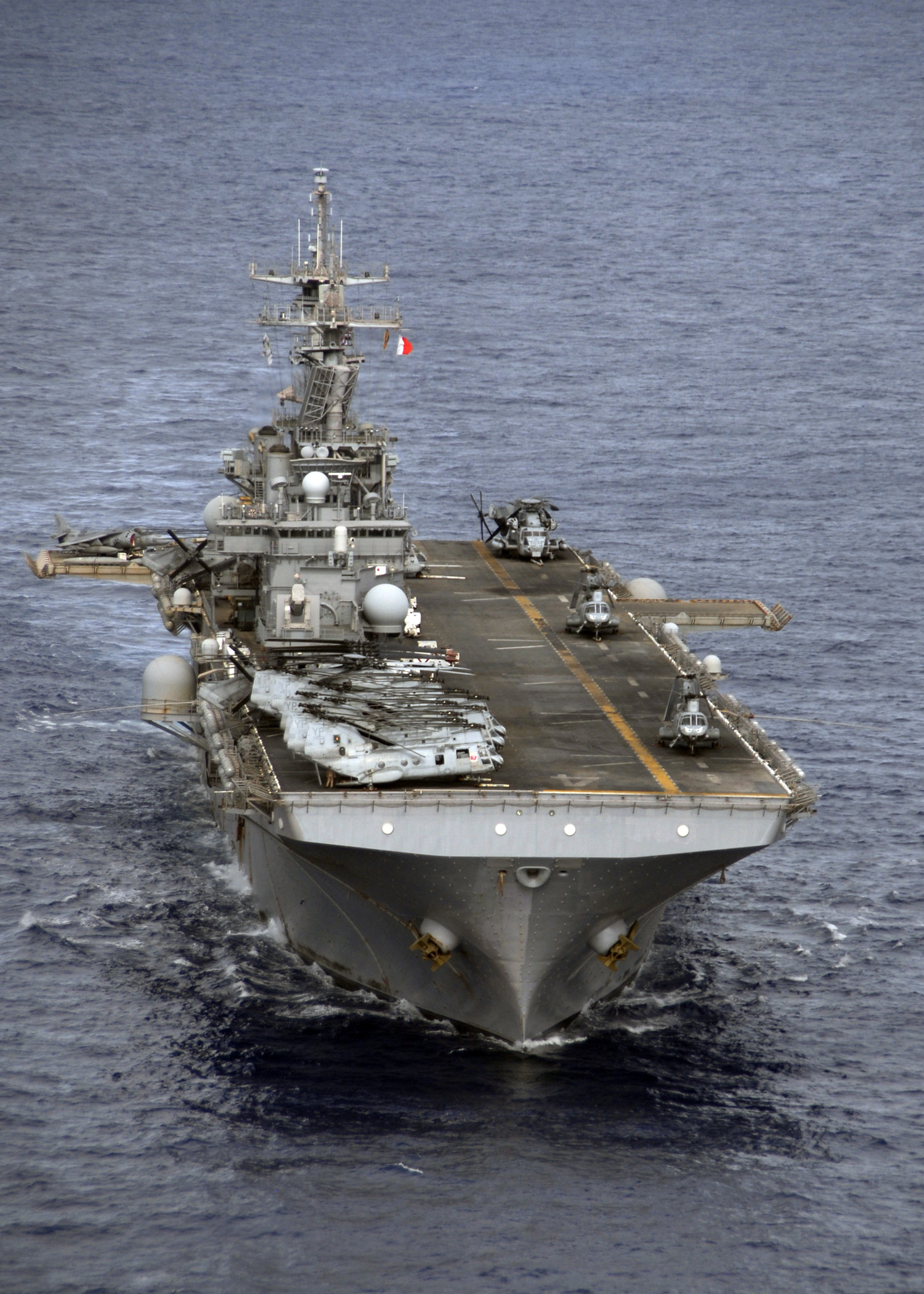 PACIFIC OCEAN (July 25, 2009) The amphibious assault ship USS Boxer (LHD 4) transits the Pacific Ocean while returning to homeport in San Diego. The Boxer Amphibious Ready Group and the embarked 13th Marine Expeditionary Unit (13th MEU) are returning from a seven-month deployment supporting global maritime security. (U.S. Navy photo by Mass Communication Specialist 2nd Class John J. Siller/Released)